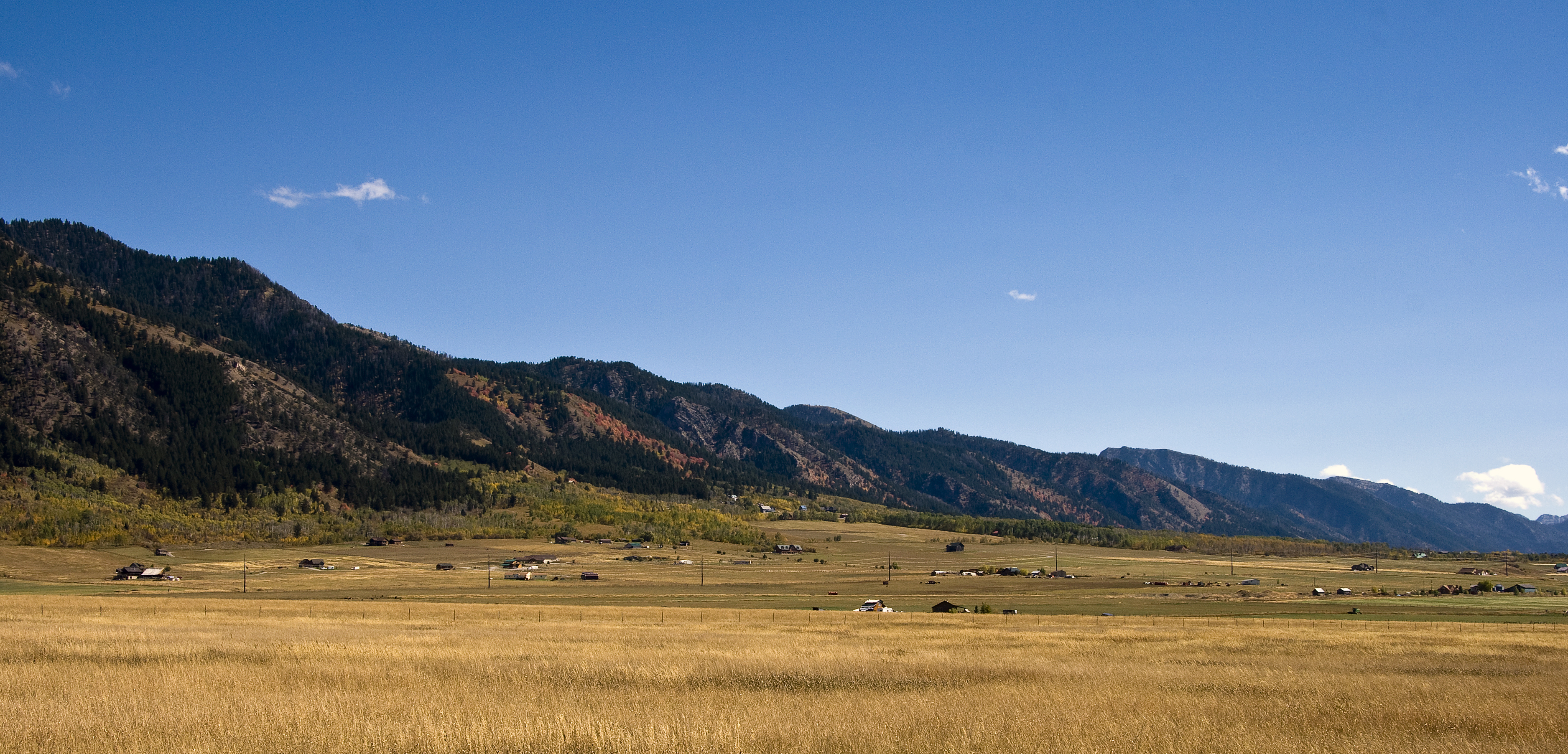 Salt River Range, Lincoln County, Wyoming, USA, from the Star Valley